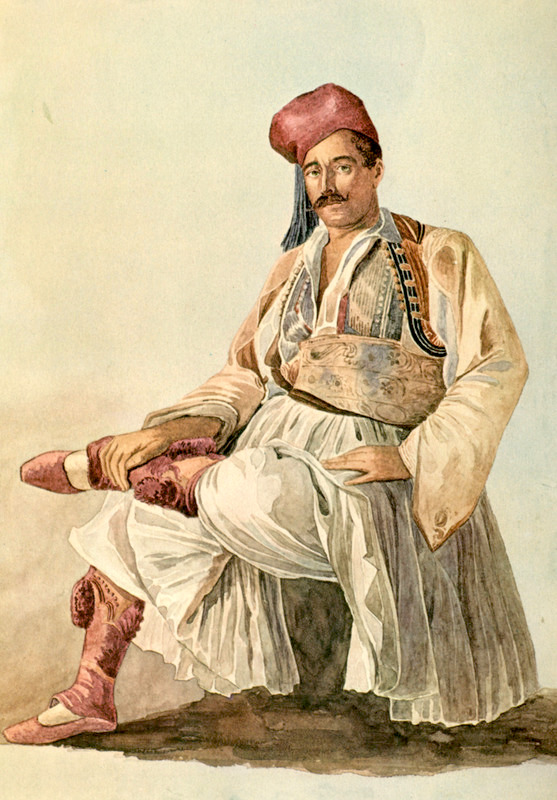 Greek chieftain, 1830s